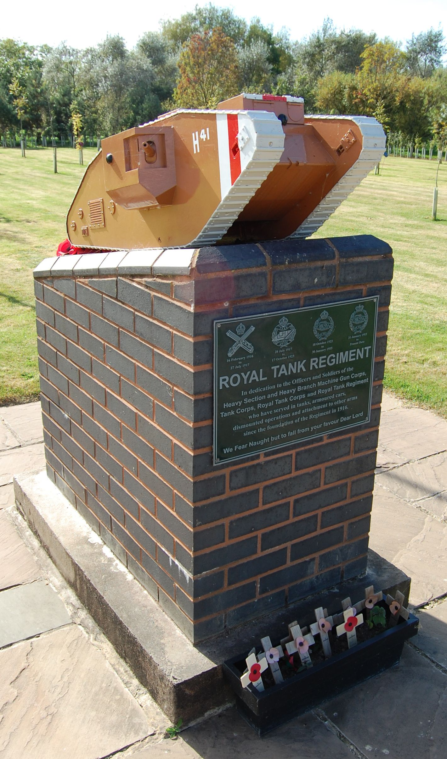 Royal Tank Regiment war memorial, at the National Memorial Arboretum, Alrewas, Staffordshire, England.